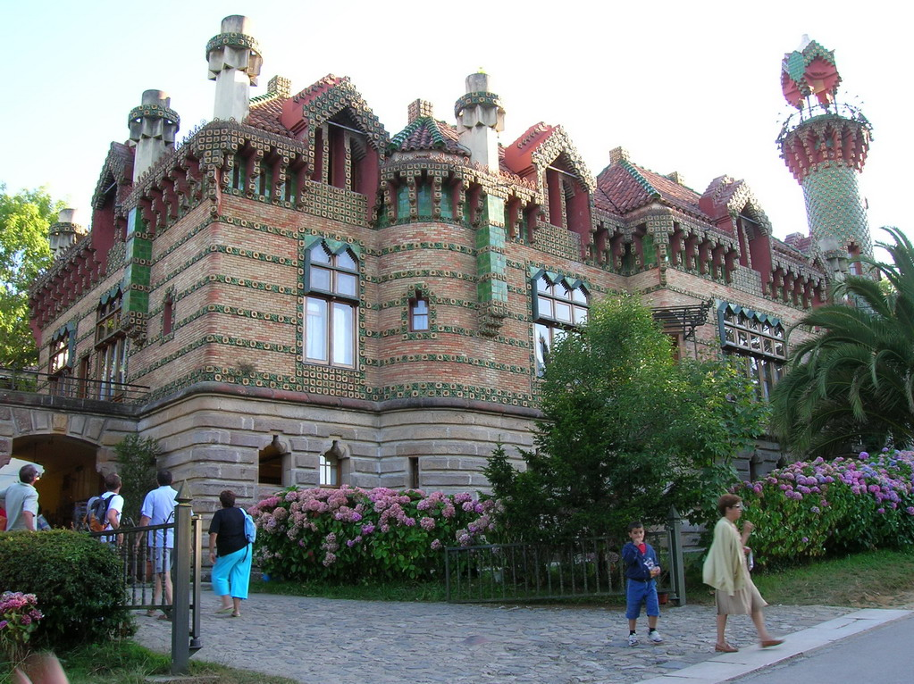 El Capricho (literally "the whim") de Antoni Gaudí, in Comillas (Cantabria, Spain).